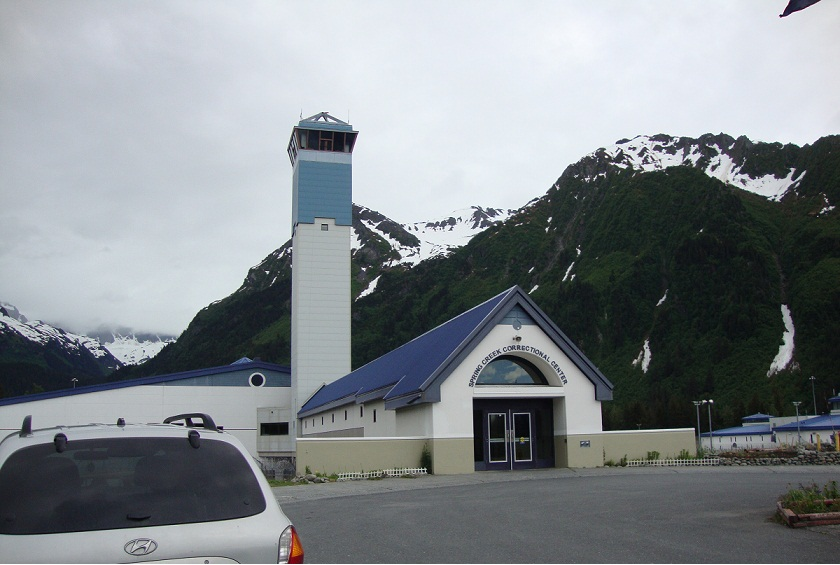 Spring Creek Correctional Center public entrance, guard tower and buildings, Seward, Alaska, USA.